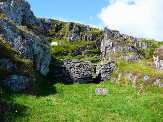 St Cormac's Cave The actual cave lies just behind the rough wall (which was a small chapel for visitors to the hermit). Inscribed crosses inside date the cave to the 8th century.